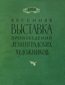 Cover of the catalog of Spring Exhibition of works by Leningrad artists of 1954